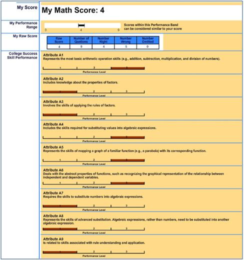 pic5 ahm wiki